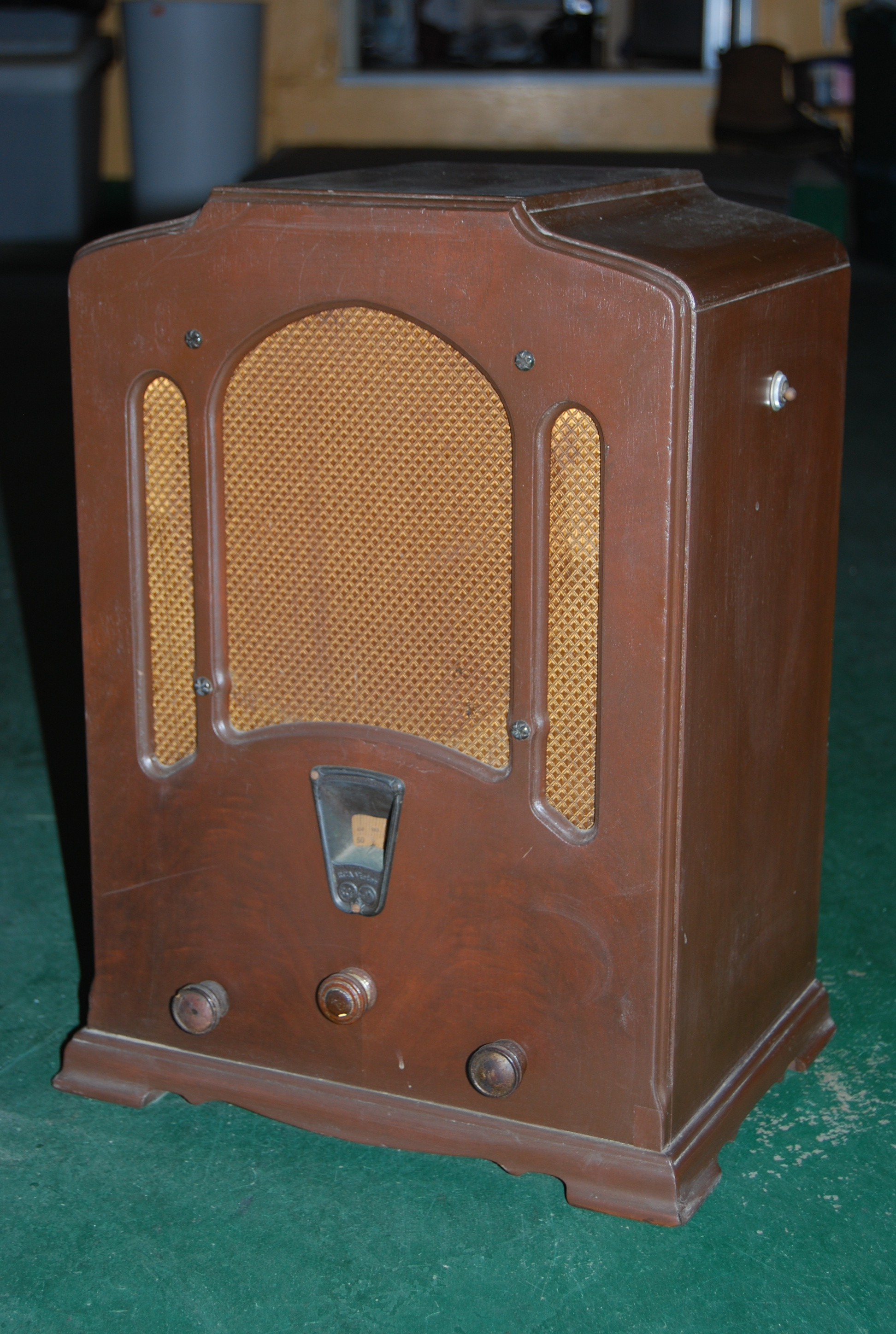 The Superette is a line of superheterodyne radios manuafactured by RCA from 1931-32 [1]. The Model R7 is the most common. RCA controlled the superheterodyne patents ( Edwin Armstrong- inventor) from the mid 1920's and into the 1930's.